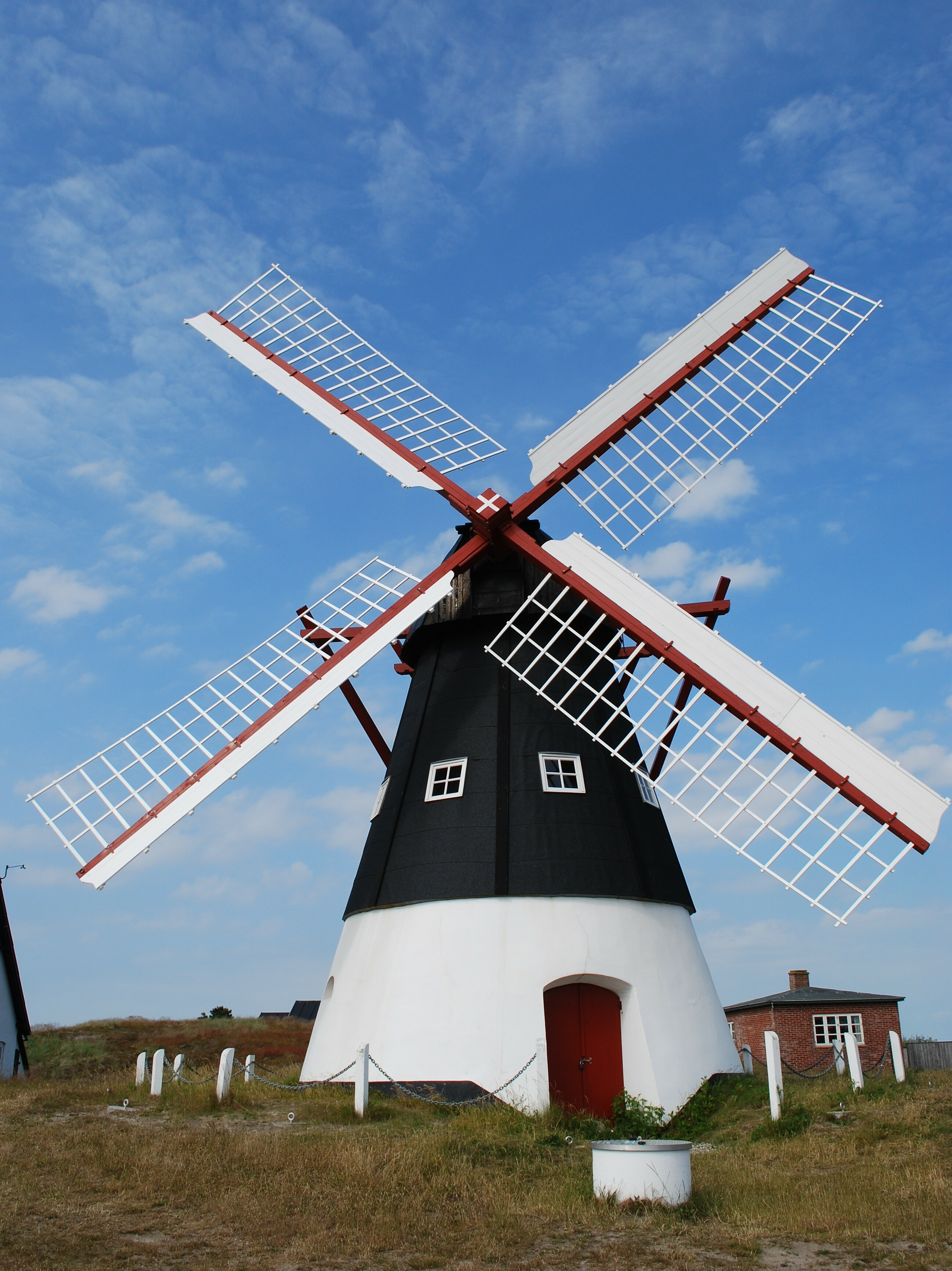 Mandø Mill, Mandø, DenmarkDansk: Mandø Mølle